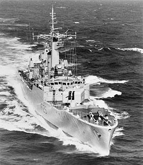 The Type 12 Frigate HMS PLYMOUTH, photographed shortly before the Falklands Conflict. On 8 June 1982, PLYMOUTH was hit by four Argentine bombs, none of which exploded.